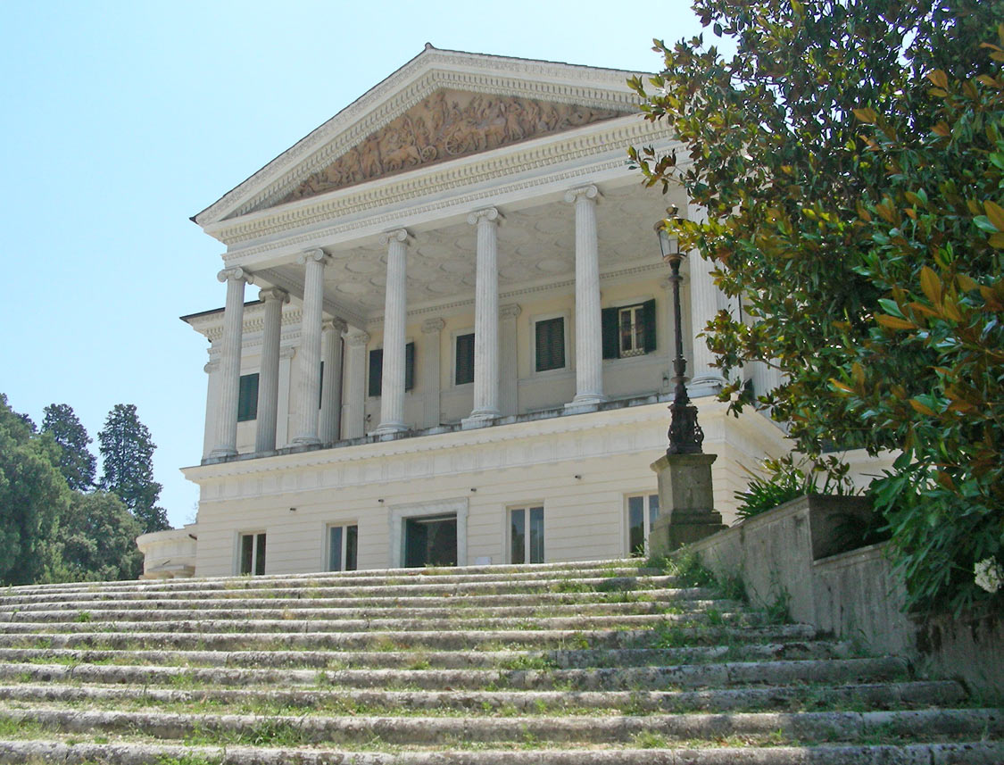 Rome, Villa Torlonia, Casino nobile, south-west side